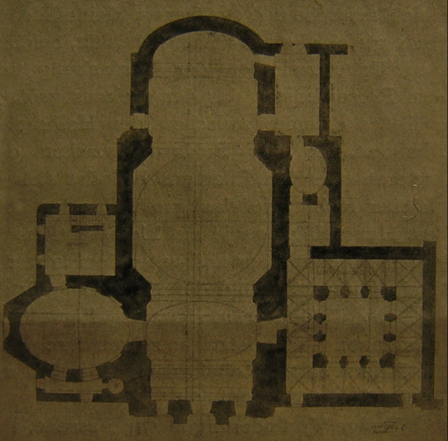 Horizontal projection of the Most Holy Trinity Church in Fulnek, Czechia.